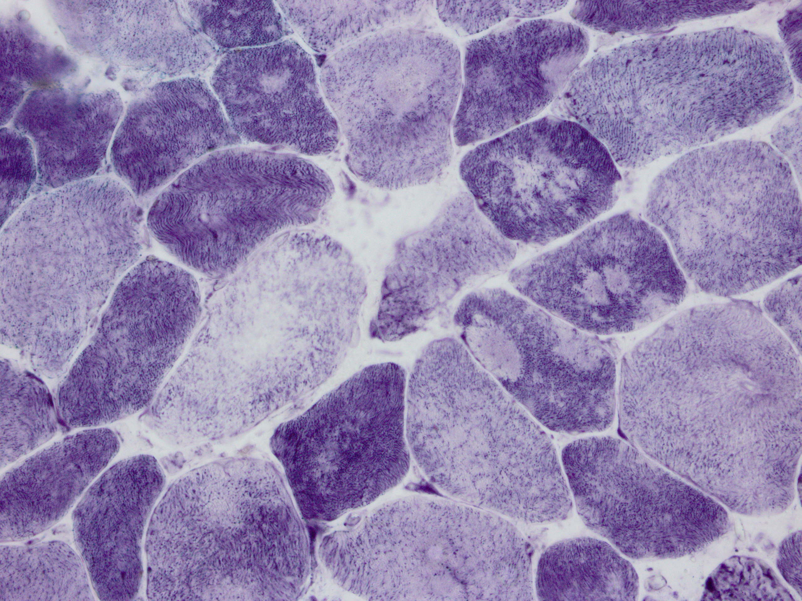 Histopathology of Multicore-Myopathie. Multiple cores on NADH-stain of a muscle biopsy.